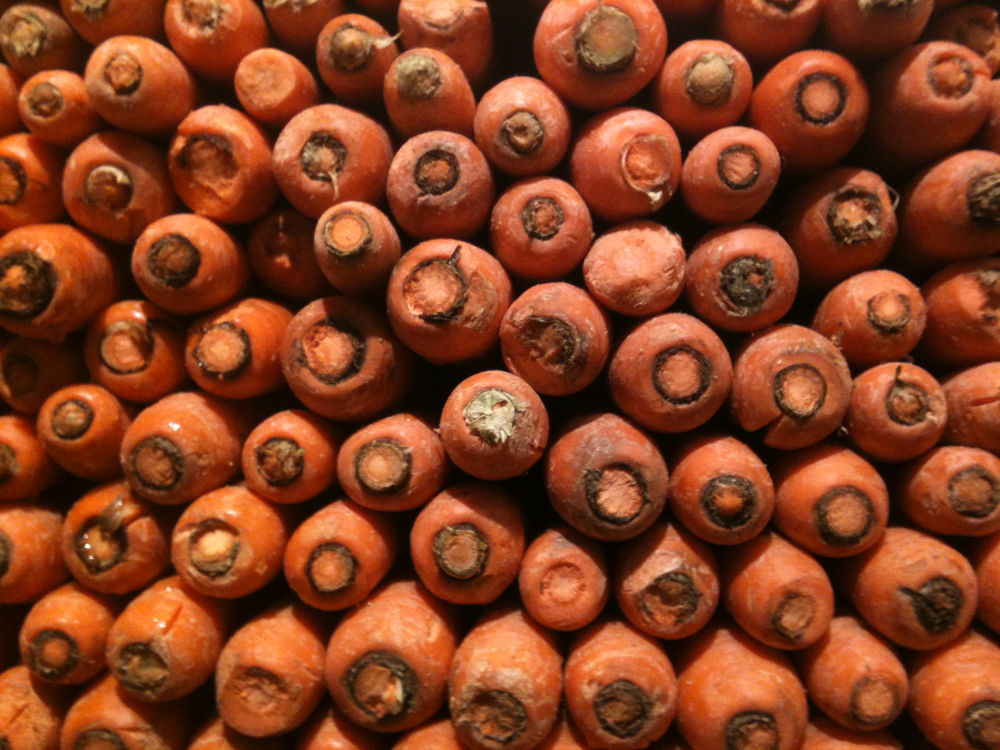 Carrots ready for purchase.